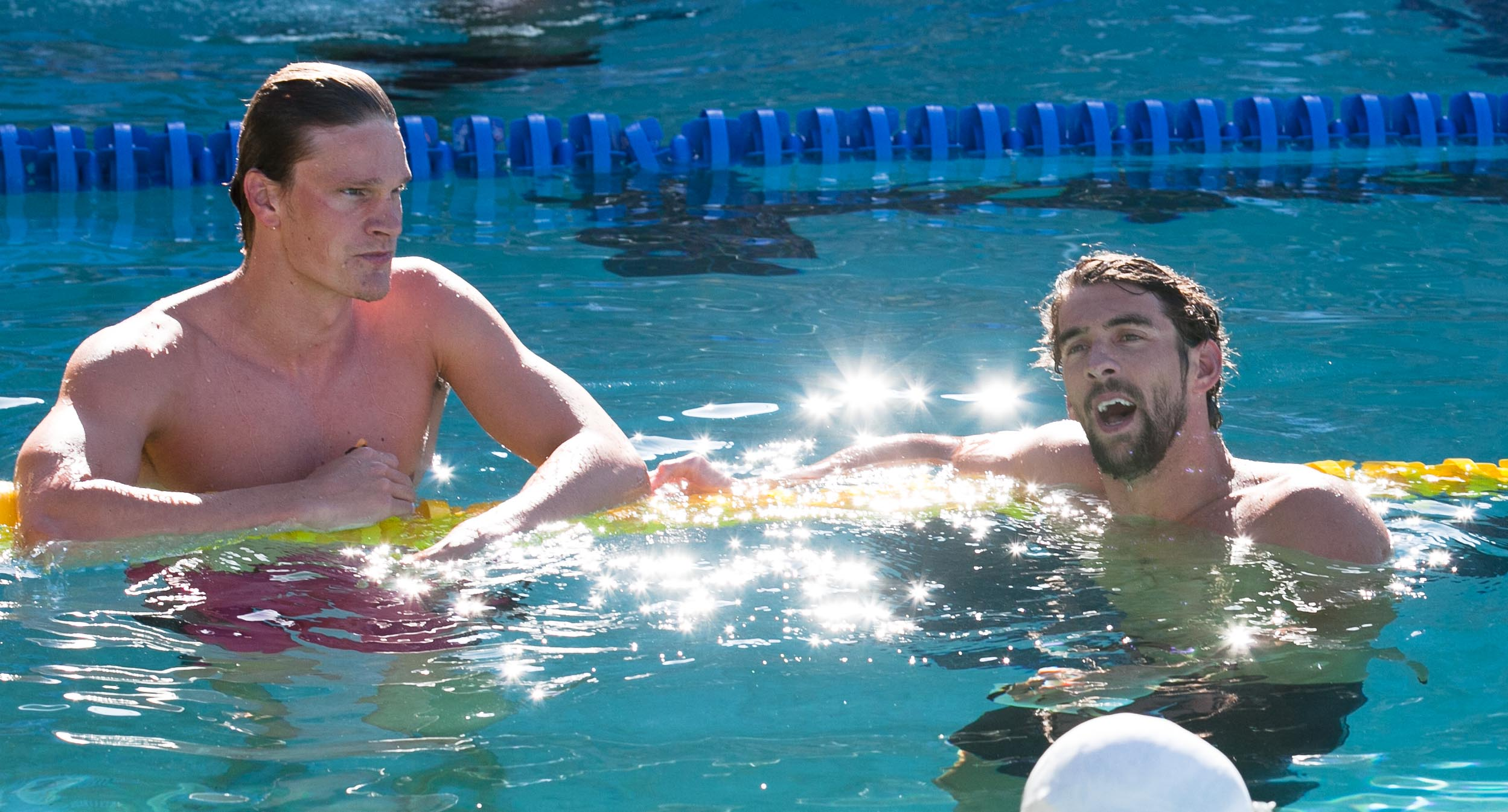 Yannick Agnel & Michael Phelps after 200m freestyle